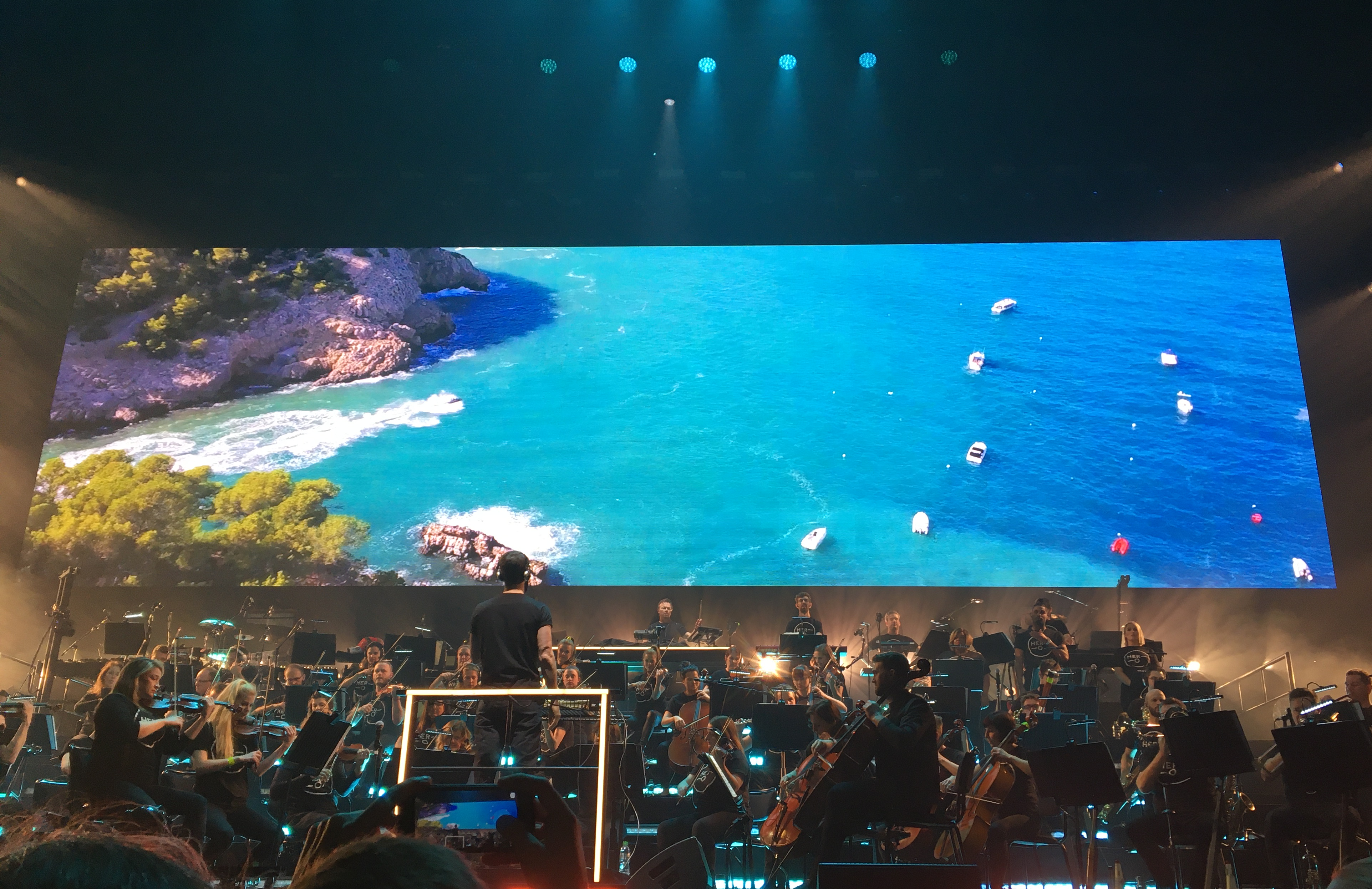 The Heritage Orchestra performing at the concert Pete Tong Presents Ibiza Classics, Leeds Area, 6 December 2019. The conductor, Jules Buckley, is in the foreground with his back to the camera; Pete Tong is at the back of the orchestra, in the centre.